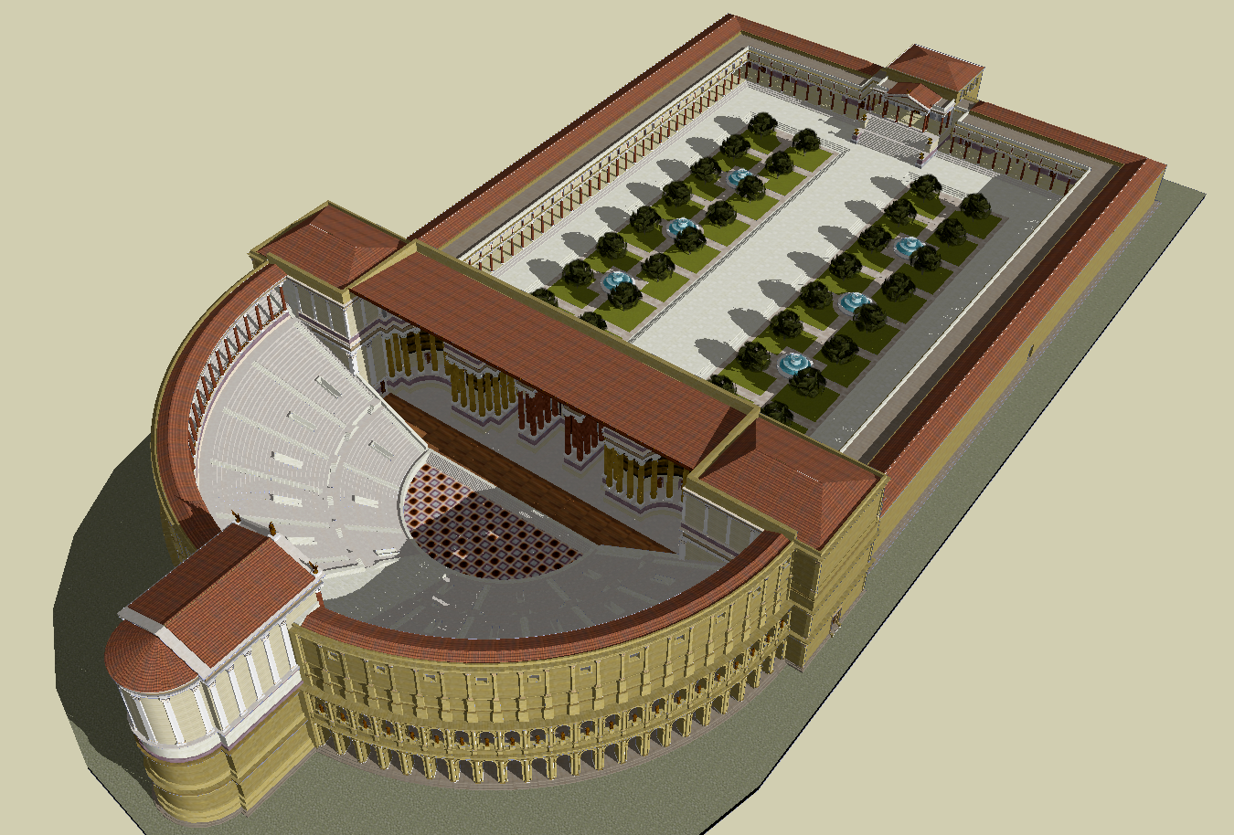 This is a derivative work of a 3D, Computer generated image of the Theatre of Pompey by the model maker, Lasha Tskhondia - L.VII.C.[1]. Variations to the original model include shadows, adjusted for good lighting as well as the file being adjusted for color and contrast.